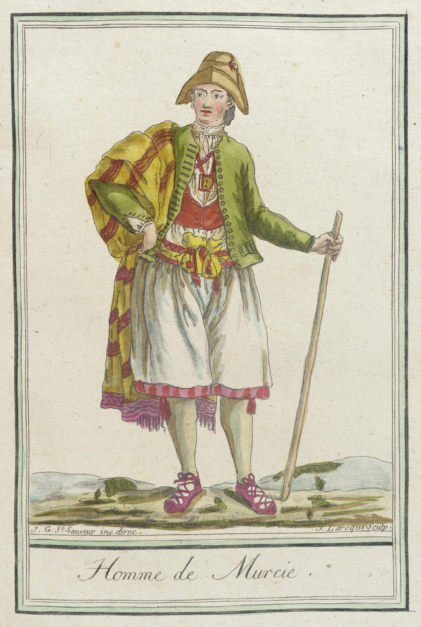 France, circa 1797 Prints; engravings Hand-tinted engraving on paper Sheet: 10 1/8 x 7 7/8 in. (25.72 x 20.01 cm); Composition: 8 x 5 7/8 in. (20.32 x 14.93 cm) Costume Council Fund (M.83.190.99) Costume and Textiles